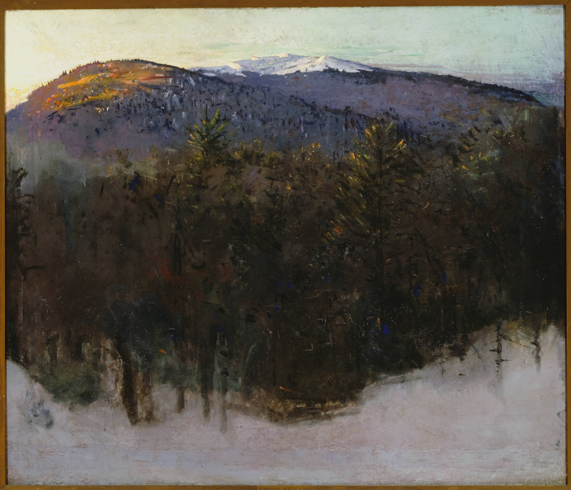 Abbott Handerson Thayer, American, 1849–1921 Monadnock, Winter Sunrise, 1919 Oil on canvas 133 x 158 cm. (52 3/8 x 62 3/16 in.) frame: 168 × 191.5 × 10.5 cm (66 1/8 × 75 3/8 × 4 1/8 in.) Gift of Frank Jewett Mather Jr. y1953-56 Abbott Thayer established his reputation primarily with portraits of fashionable women evocative of his Parisian training. He soon gravitated toward a more subdued aesthetic, in which his subjects were invested with a serenity and solemnity suggesting an increasingly symbolic attitude toward painting. Such an approach culminated in the allegorical tableaux and images of classically garbed, often winged women he produced beginning around the time of his wife’s death in 1891, but also seems inherent in the hauntingly beautiful series of paintings of New Hampshire’s Mount Monadnock he created after moving nearby a decade later. The expressive peak exerted a powerful attraction for Thayer, serving as a spiritual and artistic touchstone. From his home, he painted repeated winter views of the dark forest leading up to the mountain’s snowy summit, often, as here, at sunrise. Obsessively conscientious about his work, Thayer evolved an unusual studio practice in an effort to obtain optimal results. Painting while flanked by assistants who copied his images brushstroke for brushstroke, the artist could alternate between versions of a single composition in the same state of completion while experimenting with different pictorial effects. He made little distinction between his original and these "duplicates," as he called them, moving frequently between them in a manner that obscured such divisions. Monadnock, Winter Sunrise is among the latest and most successful examples of Thayer’s Monadnock views produced in this way. The rising, sun-tipped shoulder of the mountain and its snow-capped peak beyond are echoed, as if in reflection, by the inversely descending edge of the wooded foreground, which seems bowed by the weight of the massive form above.